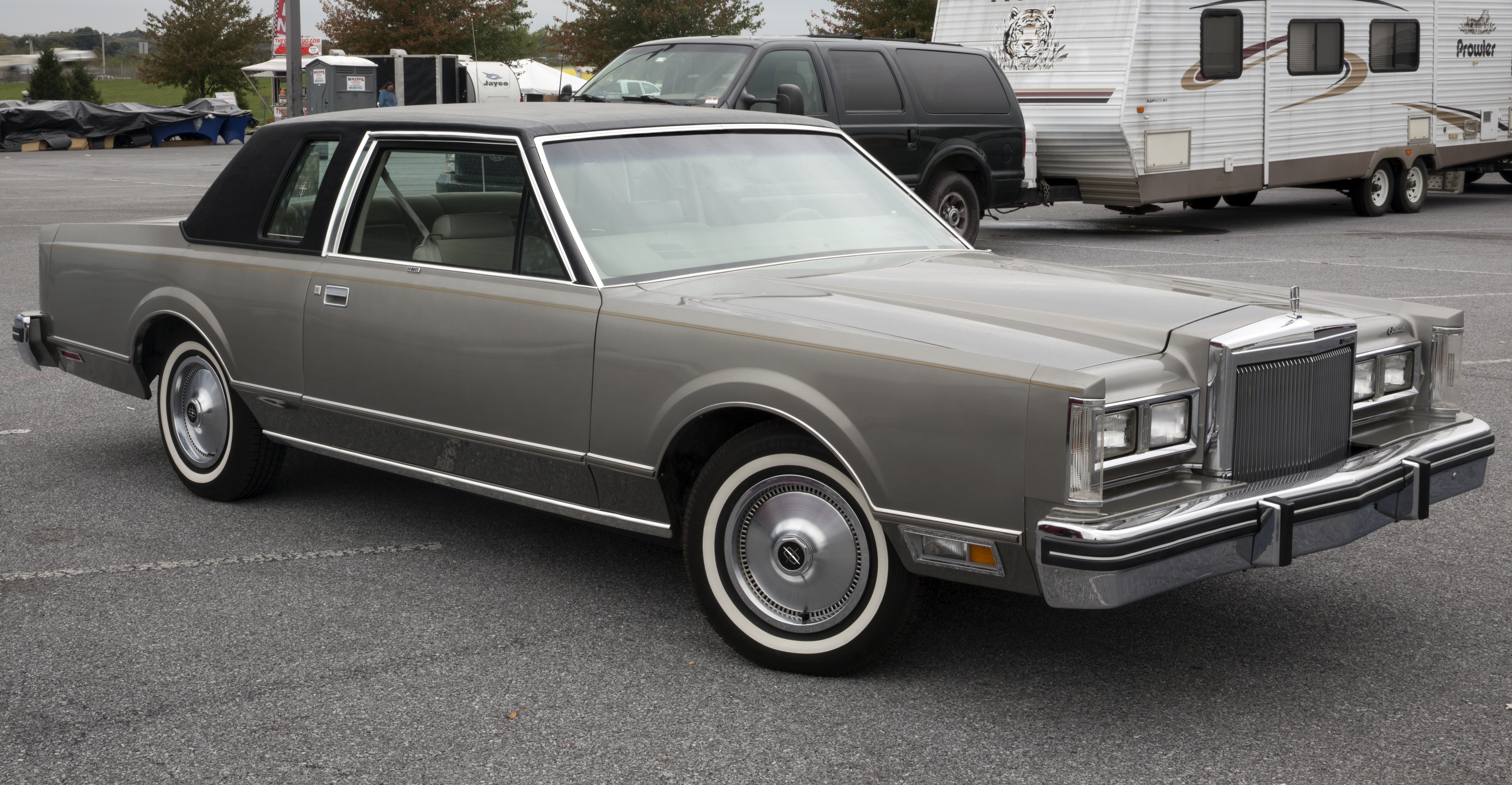 1980 Lincoln Continental two-door Coupe offered for sale in the flea market area at Hershey 2019. I did not realize how rare this car is until I realized that uploading it meant having to create a new category here. 351 2-barrel V8.